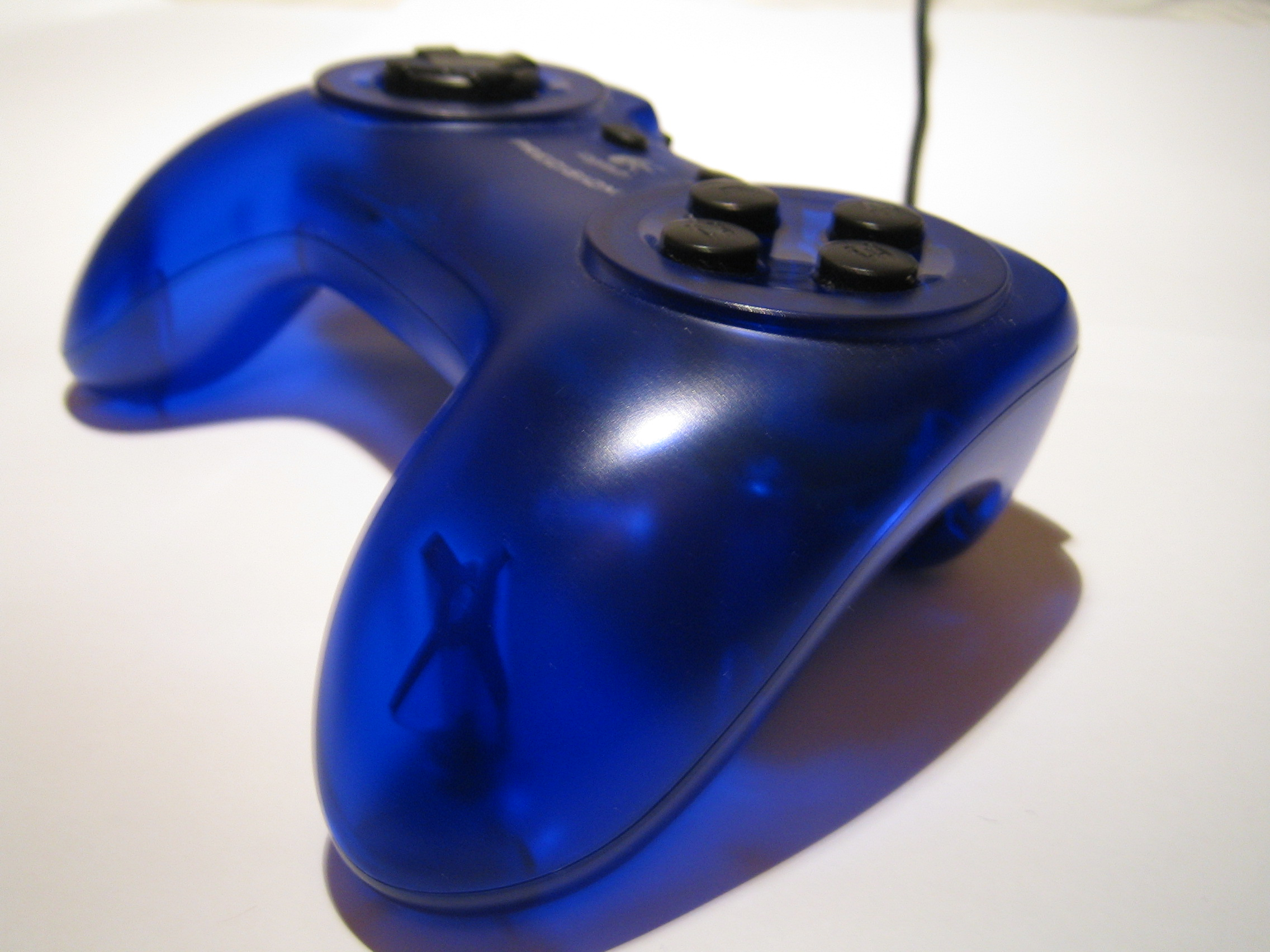 Just a picture of my logitech precision usb gamepad. I, Samuel Skånberg, took the picture 2007-02-02.